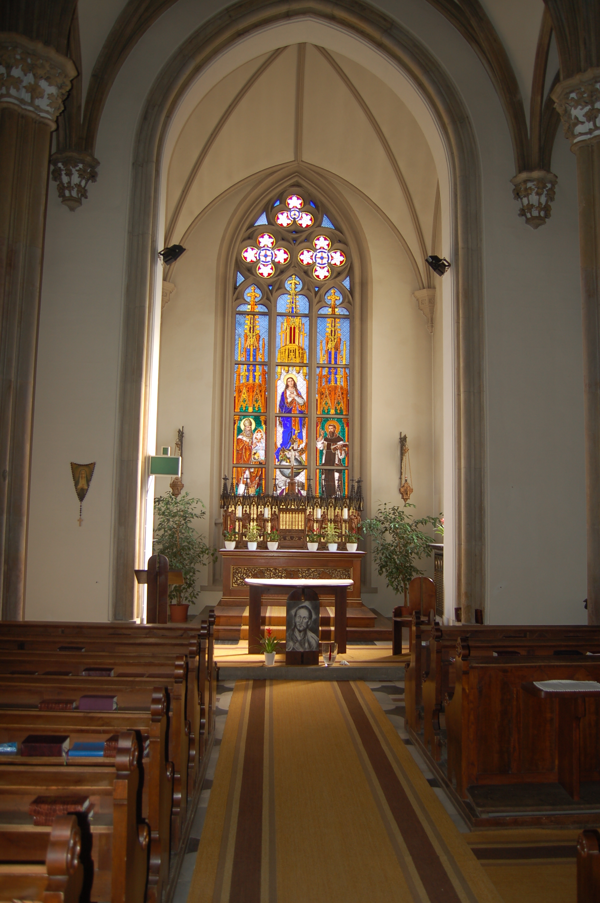 Arcibiskupské gymnázium v Kroměříži